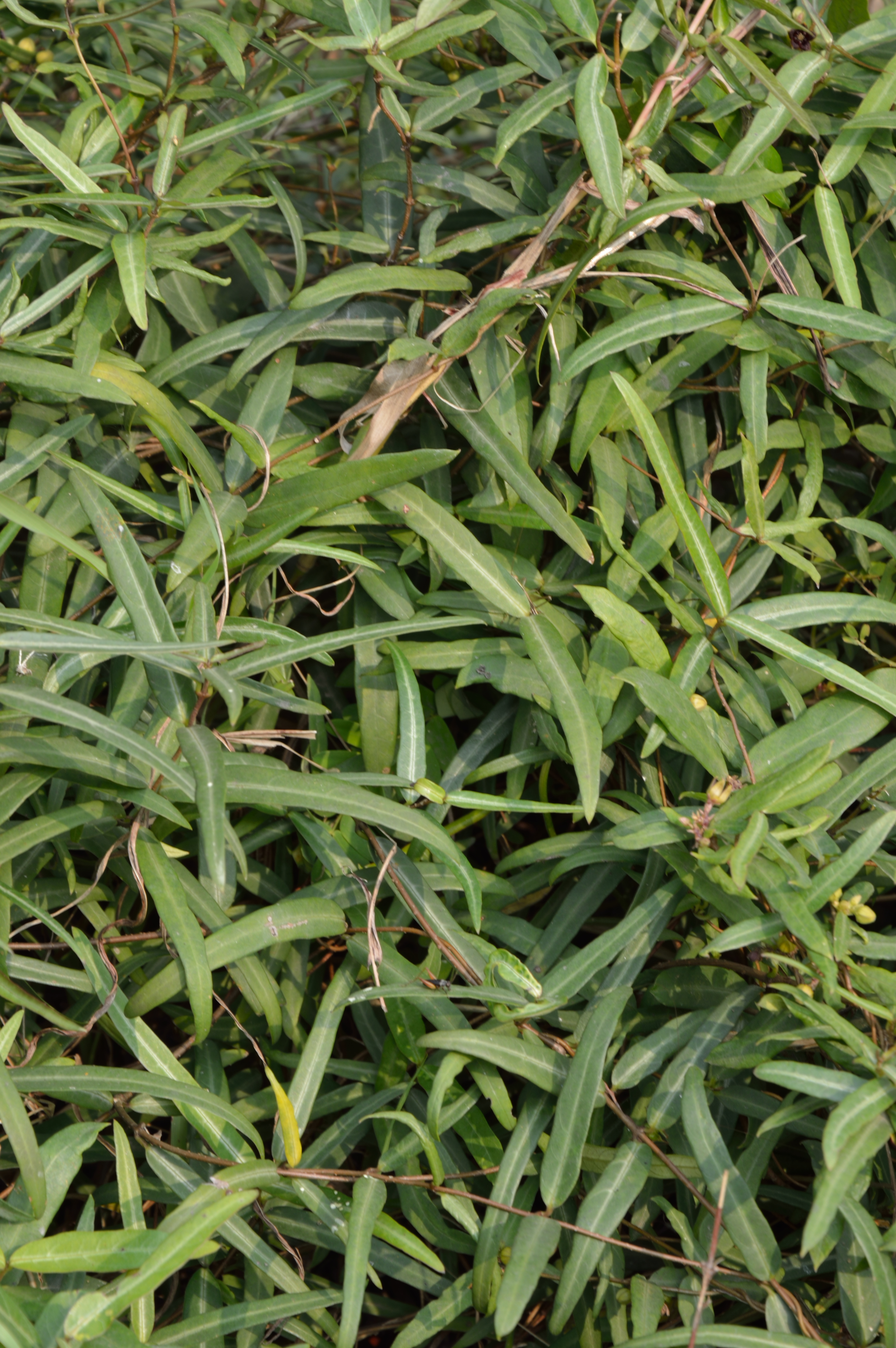 Photographs at The Agri-Horticultural Society of India, Alipore in Kolkata.